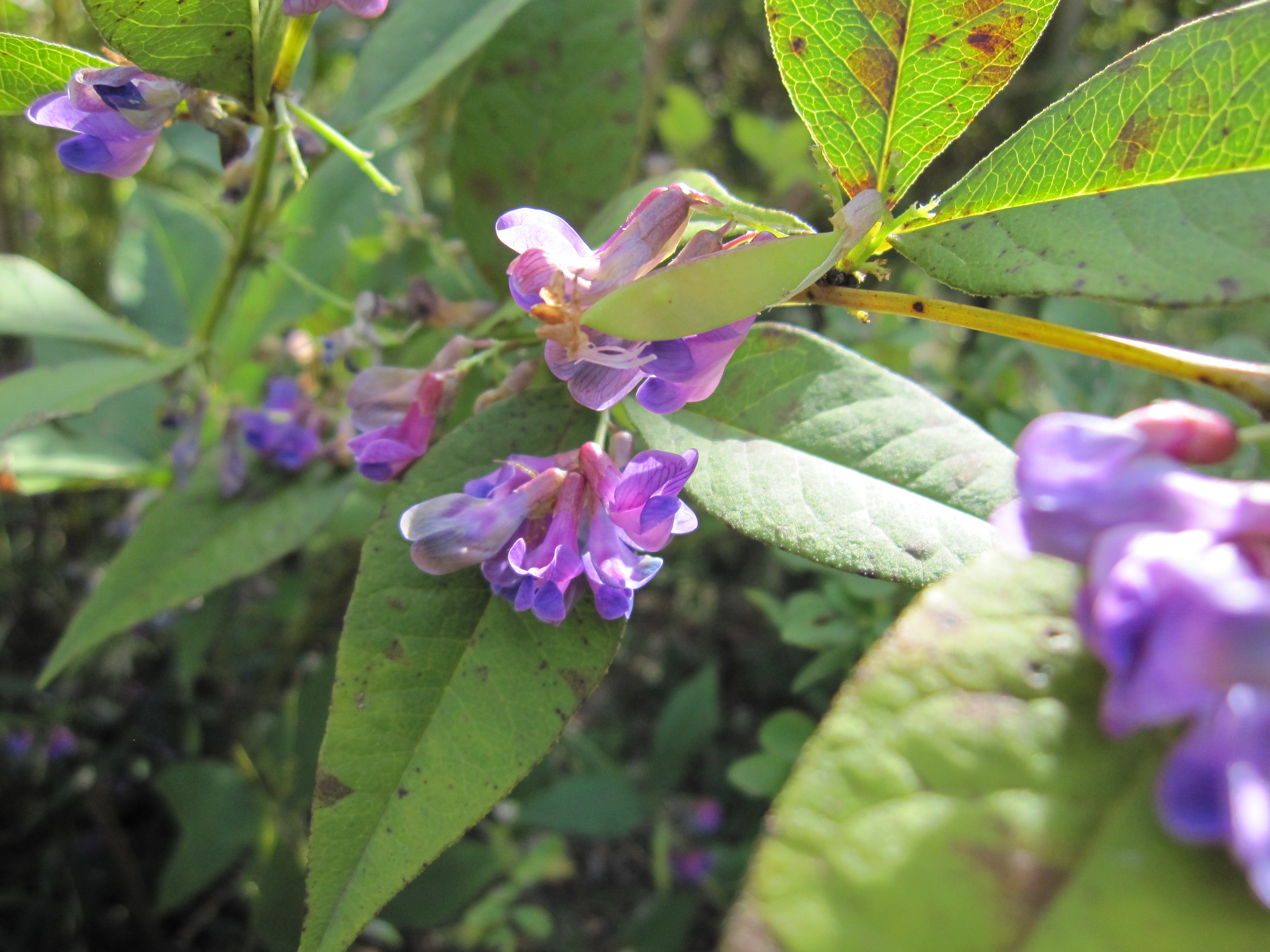 Lespedeza bicolor. Photographed at Tsukuba Botanical Garden, October 2012.